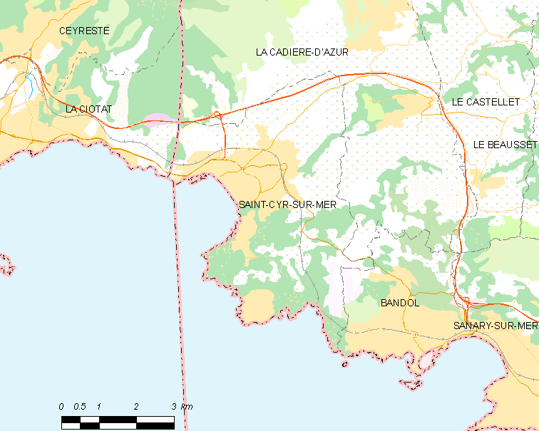 Map of French municipality Saint-Cyr-sur-Mer